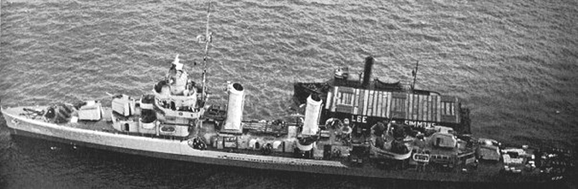 The U.S. Navy destroyer USS Herndon (DD-638) on 10 October 1943. Note that she was one of twelve Atlantic Fleet destroyers fitted with three "Mousetrap" rocket launchers forward.